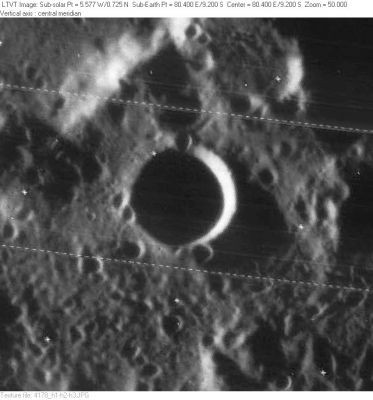 LO-IV-178H - Black crater